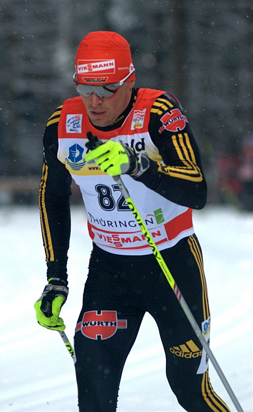 Tobias Angerer at the Tour de Ski 2010 in Oberhof